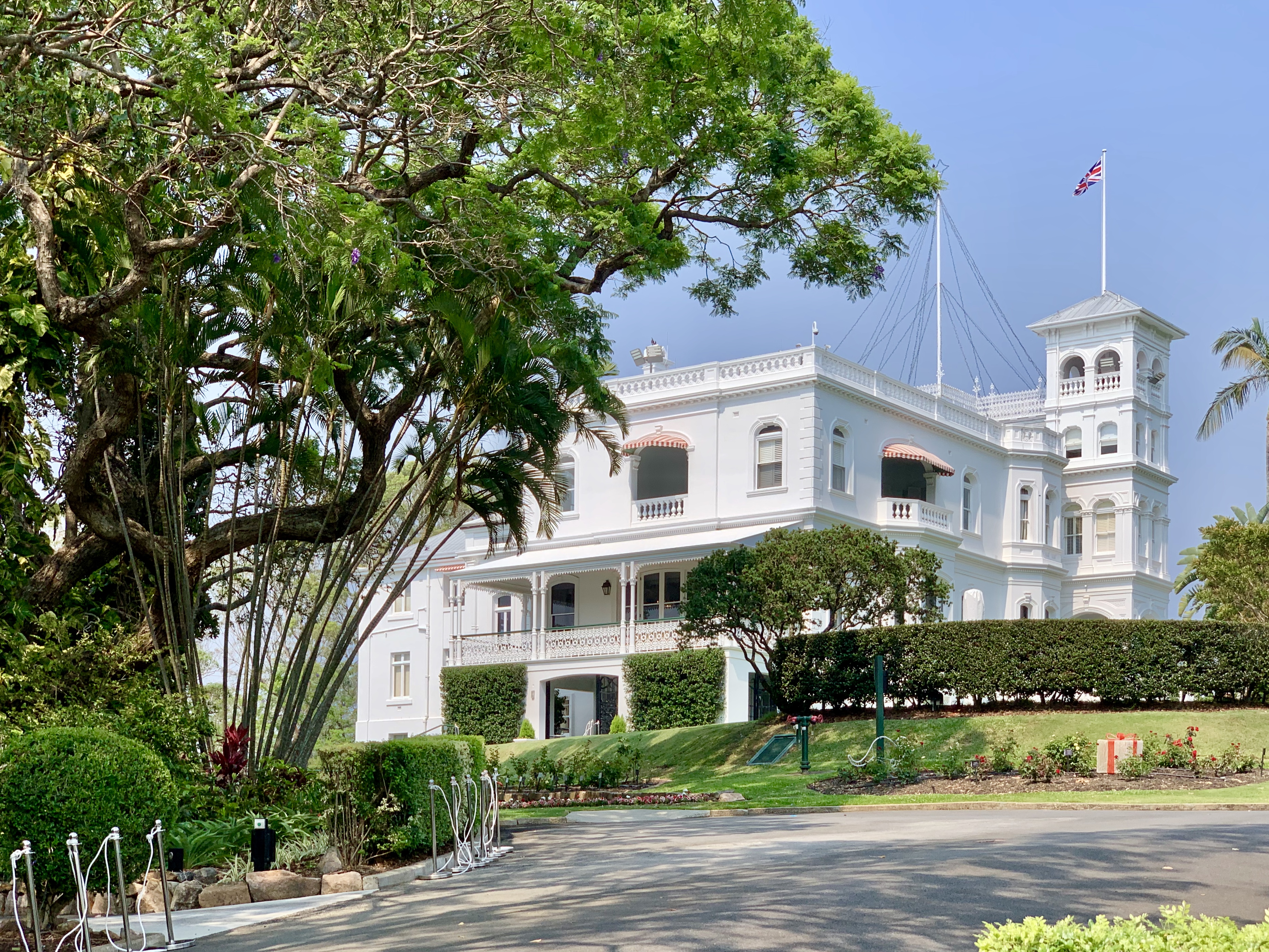 Government House seen from street, Brisbane, Queensland, 2019